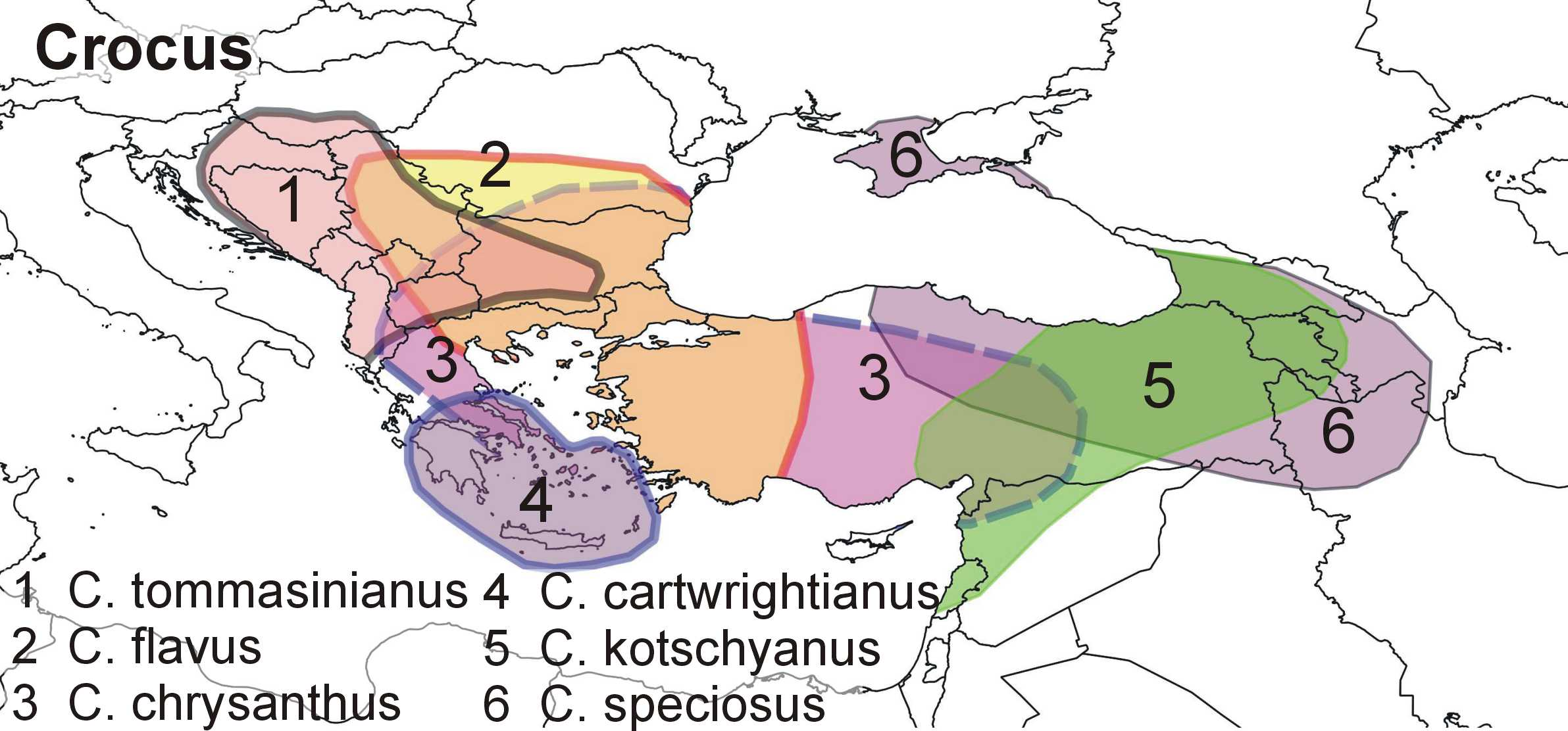 Distribution map of six species of genus Crocus in balkan and minor asia. (A try according description available in different Wikipedia pages en,de, fr,ru, es.)